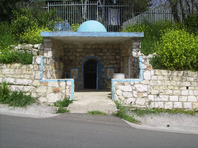 Graves Levy Yossi Bar Sissy, Religion in Israel